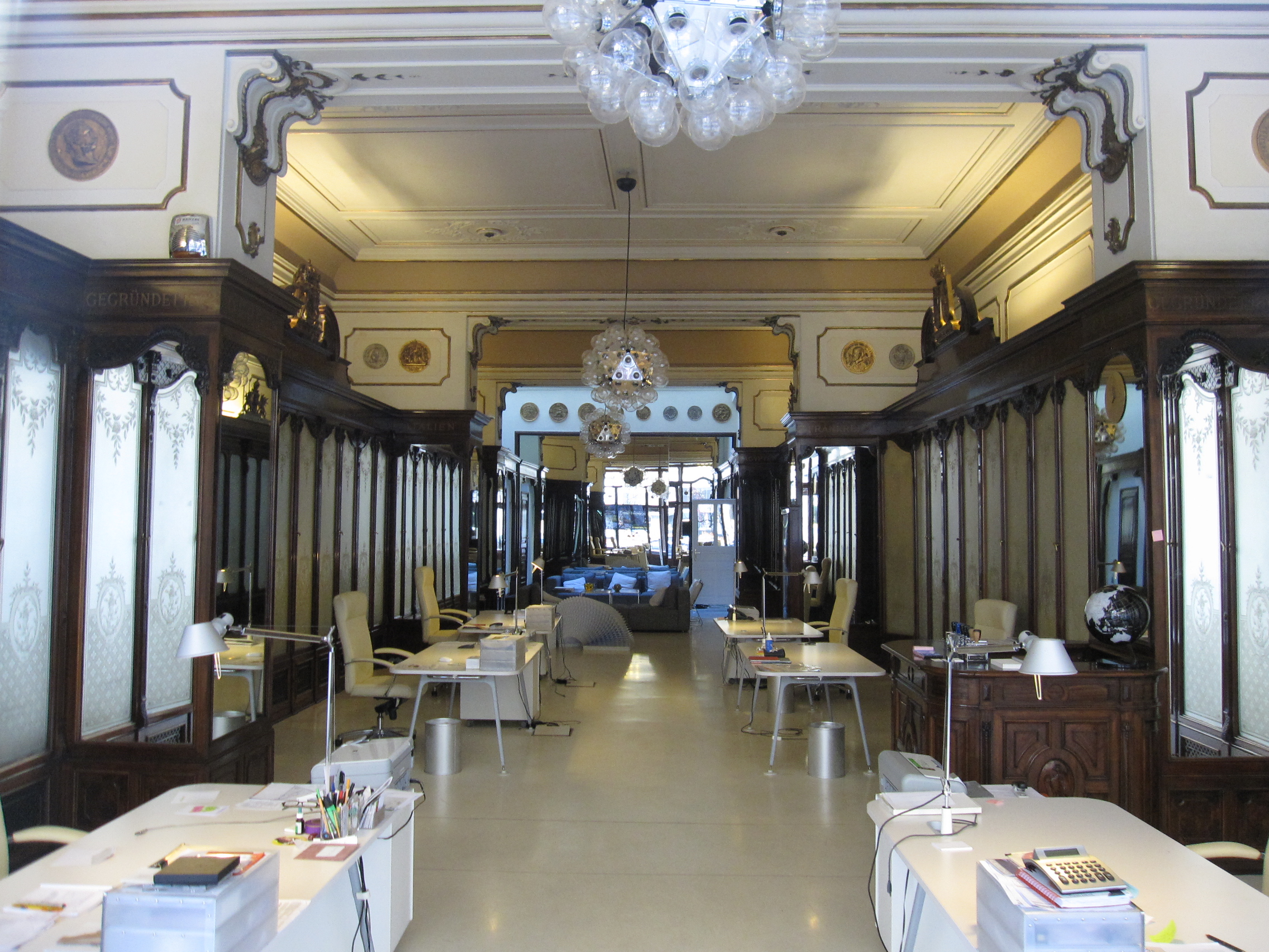 Habig-Hof in Vienna